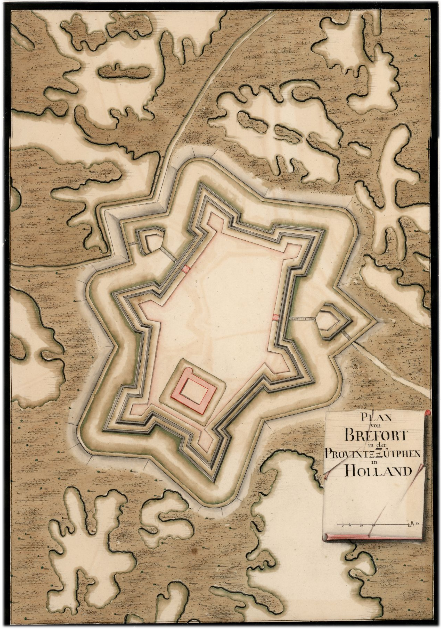 Bredevoort, in the county of Zutphen (Netherlands)